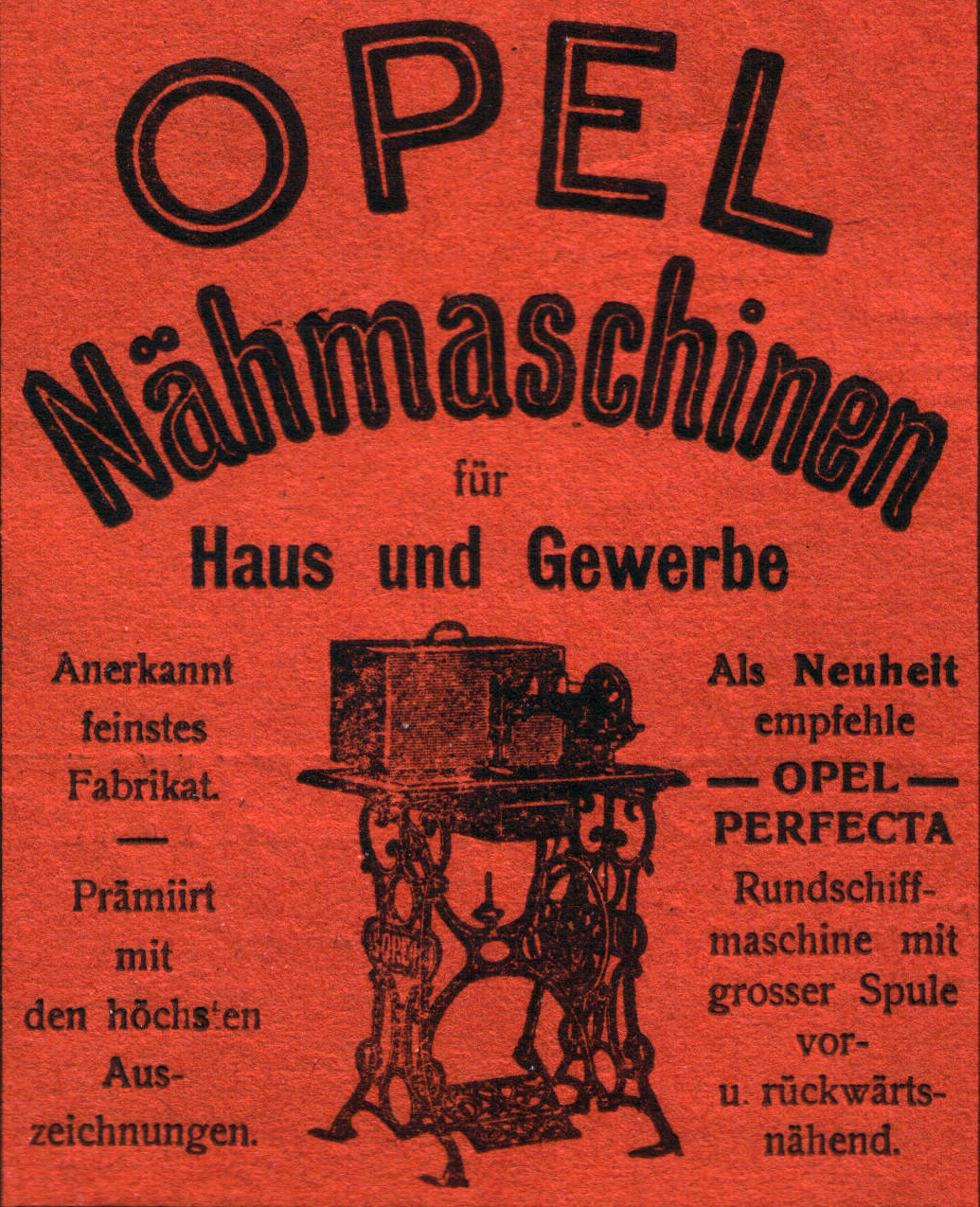 Advertisement the Adam OPEL AG form 1901